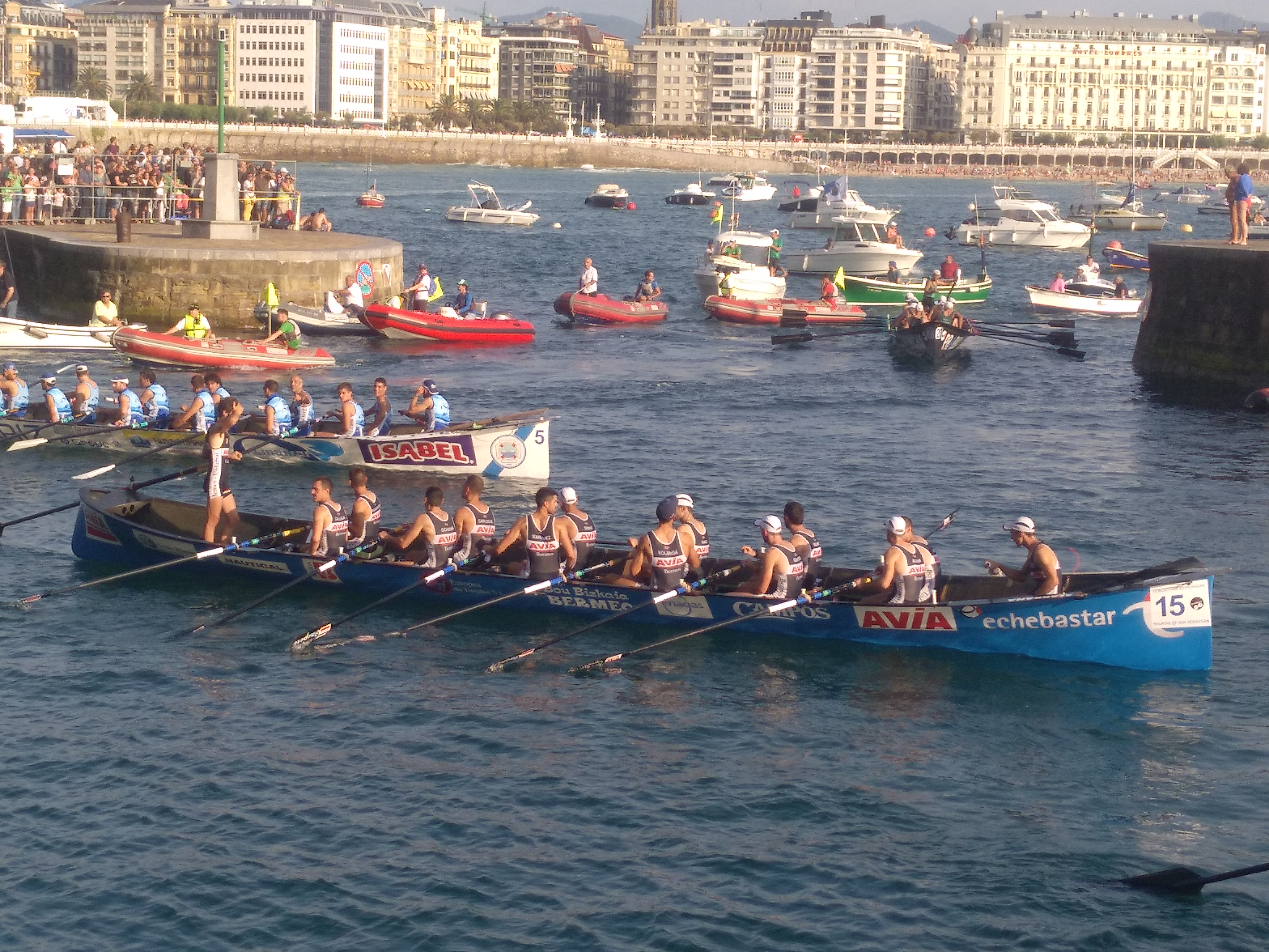 Urdaibai Arraun Elkartea, Flag of La Concha, 2018